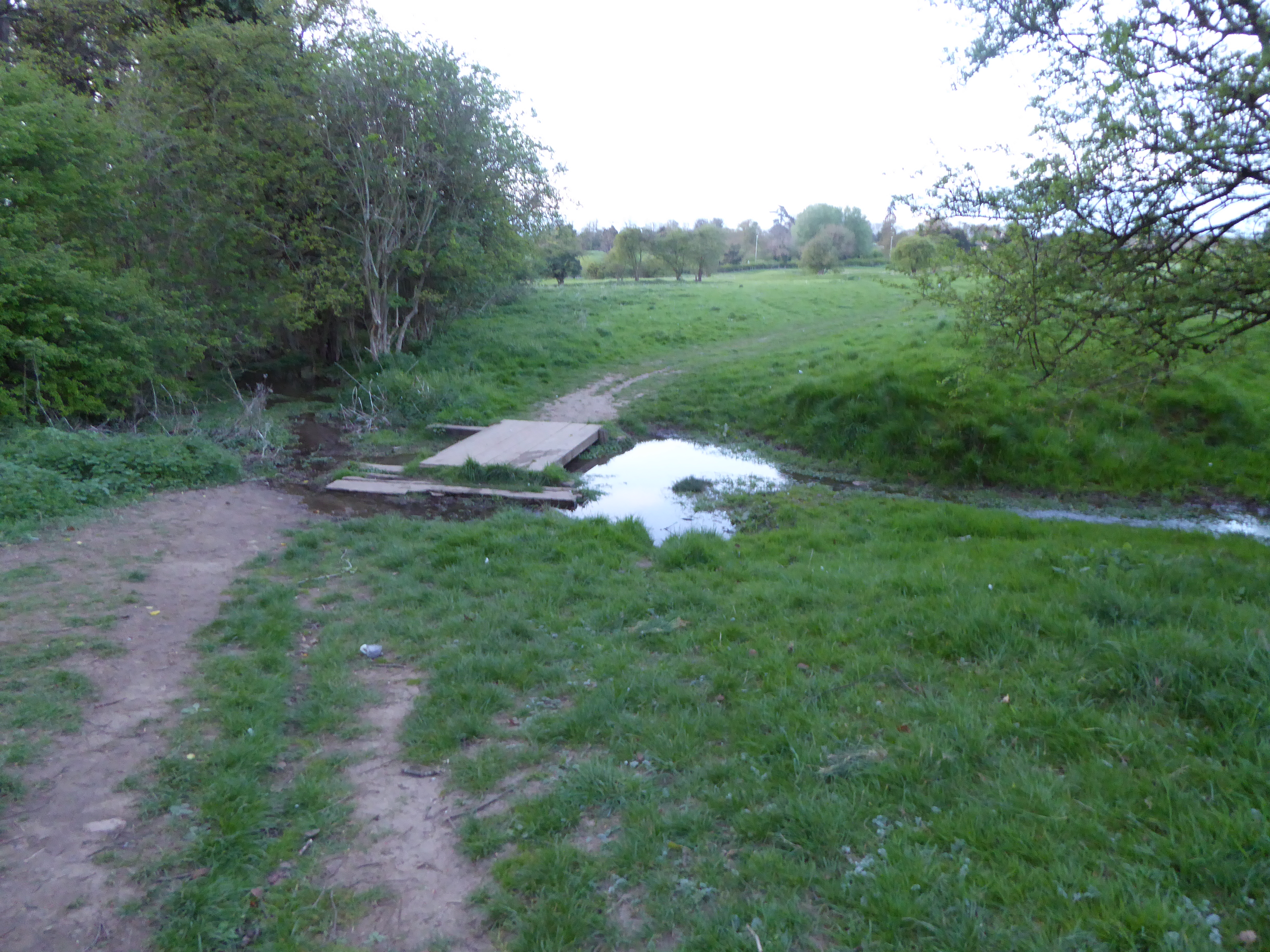 Castle Field is part of Wicksteed Park Nature Reserve in Kettering, Northamptonshire, which is managed by the Wildlife Trust for Bedfordshire, Cambridgeshire and Northamptonshire.